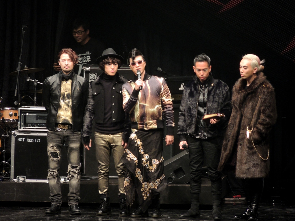 Mr @ Ultimate Song Chart Awards 2012